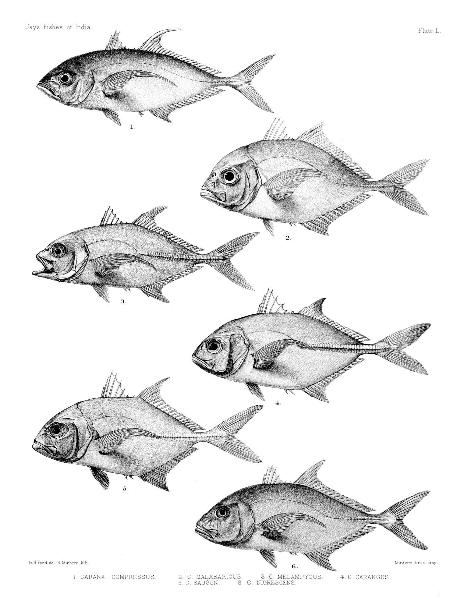 1 – Caranx compressus, 2 – Caranx malabaricus, 3 – Caranx melampygus, 4 – Caranx carangus, 5 – Caranx sausun, 6 – Caranx nigrescens.